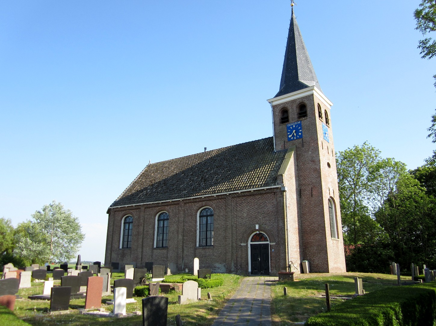 The village church of Doanjum (Dongjum), Franekeradeel, Friesland, the Netherlands.